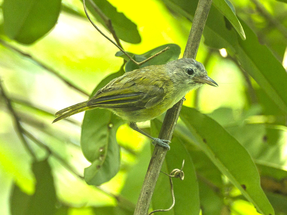 Lesser Greenlet - Chiapas - Mexico_S4E7300